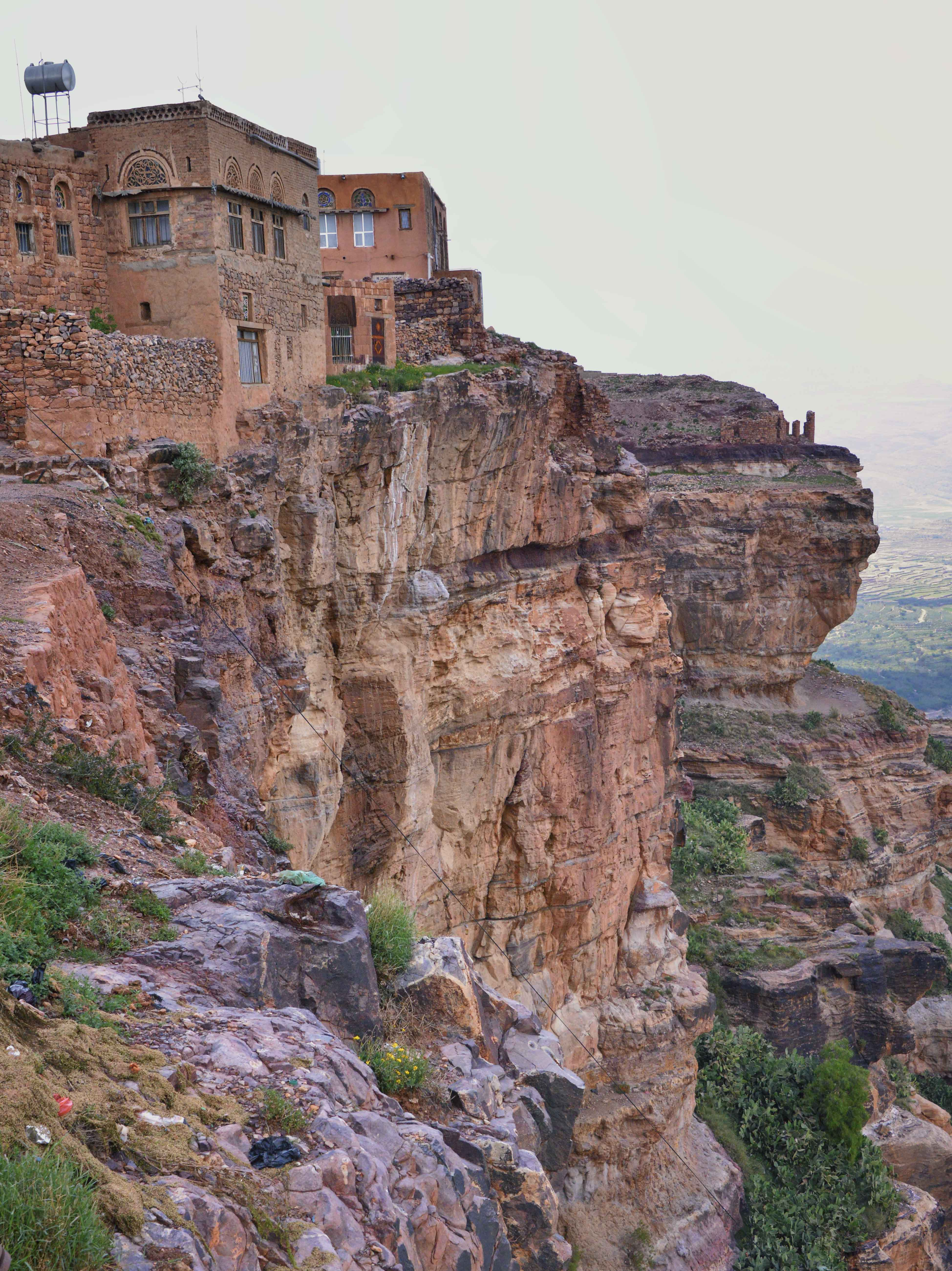 Edge of Kawkaban, Yemen